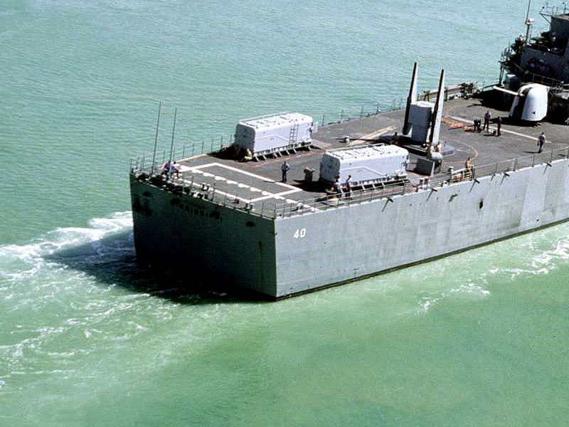 Suez Canal, 15 September 1990 - A starboard quarter view of the nuclear-powered guided missile cruiser USS MISSISSIPPI (CGN 40) underway in the Suez Canal. The ship is heading for the Red Sea to support Operation Desert Shield. U.S. Navy Photo #DN-ST-91-01493 taken by PH3 Falkenhainer.